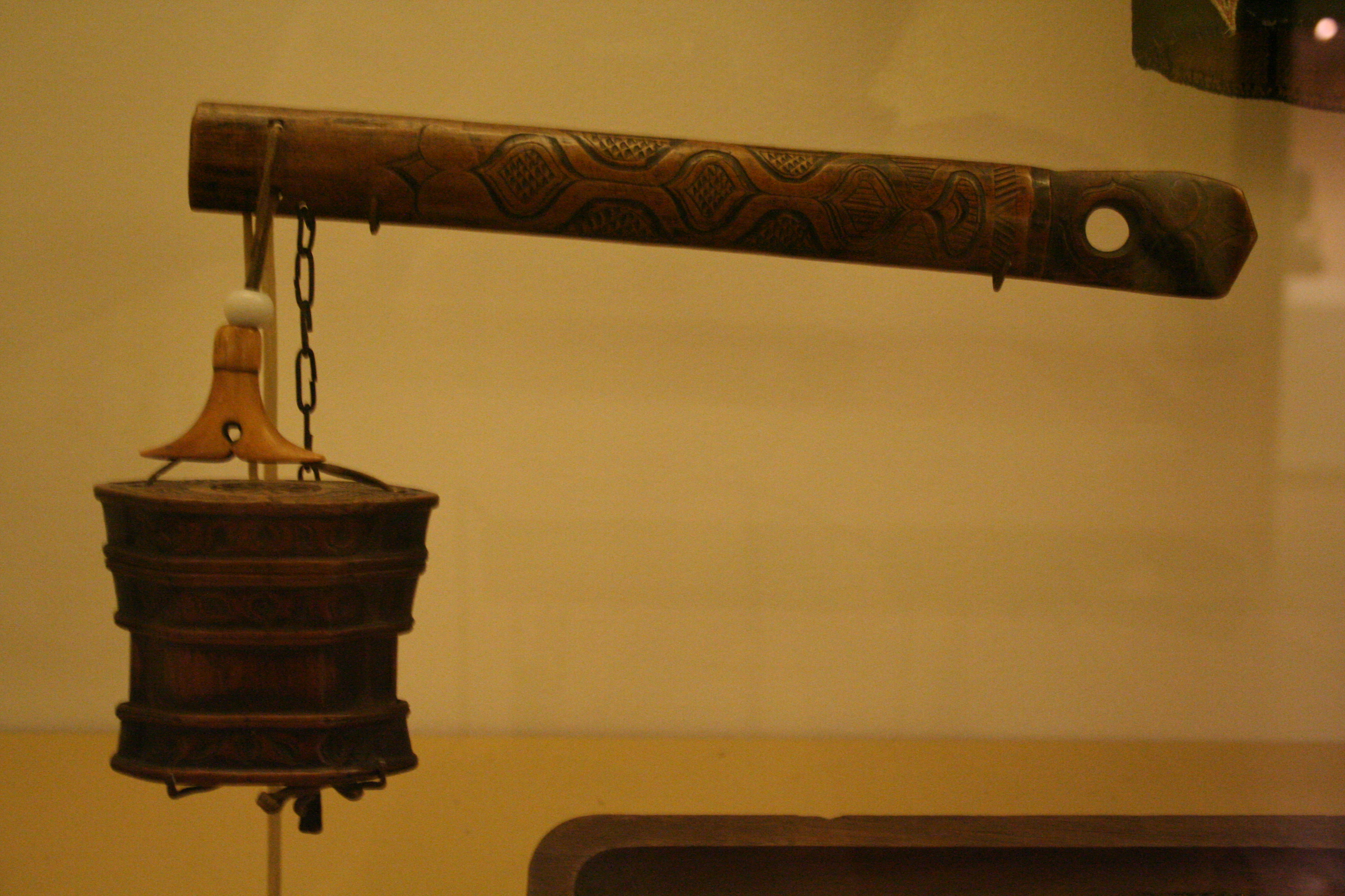 Ainu. Tanpak Op (Tobacco Box, Pipe, and Pipe Holder), late 19th-early 20th century. Wood, deer horn, glassbead and leather cord. Brooklyn Museum, Museum Expedition 1912, Purchased with funds given by Herman Stutzer, 12.658.